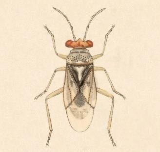 Biologia Centrali-Americana - Ninyas torvus Cut-out from original (Biologia Centrali-Americana (8272543166).jpg) shown below